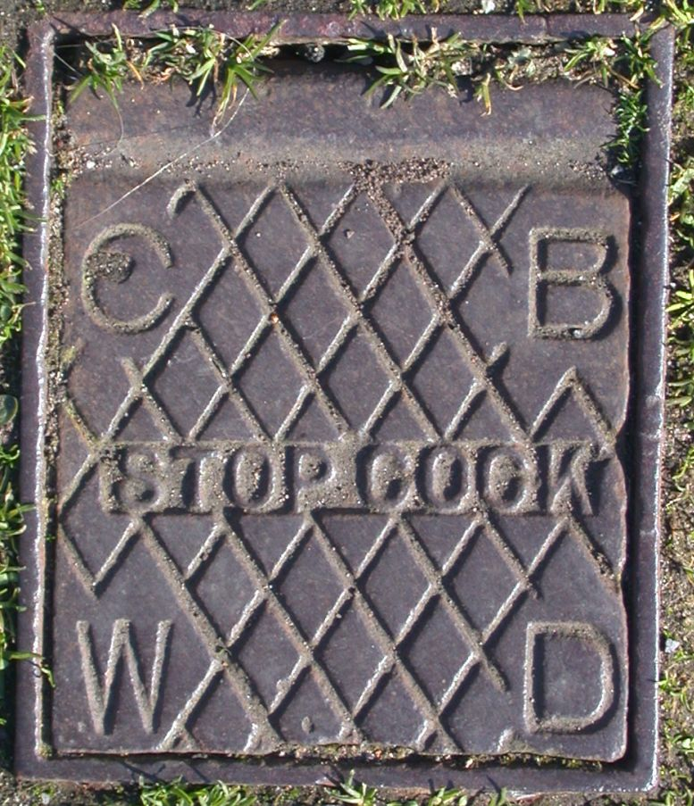 A cast-iron City of Birmingham Water Department stop-cock cover, embedded in the pavement in Great Barr, Birmingham, England. (probably 1930s)